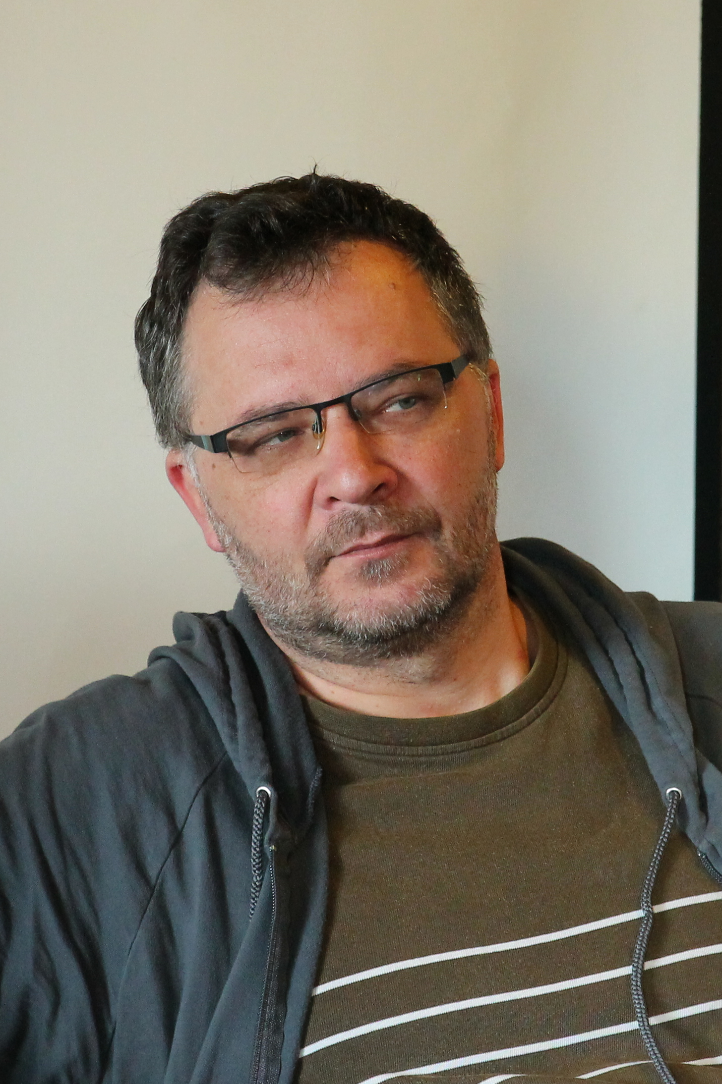 Martin Weiss during presentation taken at Summer school of Občanský institut (Citizen institute), Erlebachova bouda (Erlebach's chalet), Špindlerův Mlýn, Czech Republic